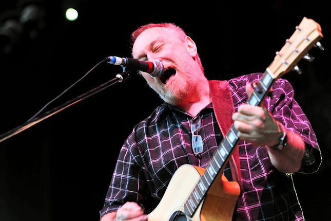 Ed Kuepper @ Red Hill Auditorium (4/12/11)